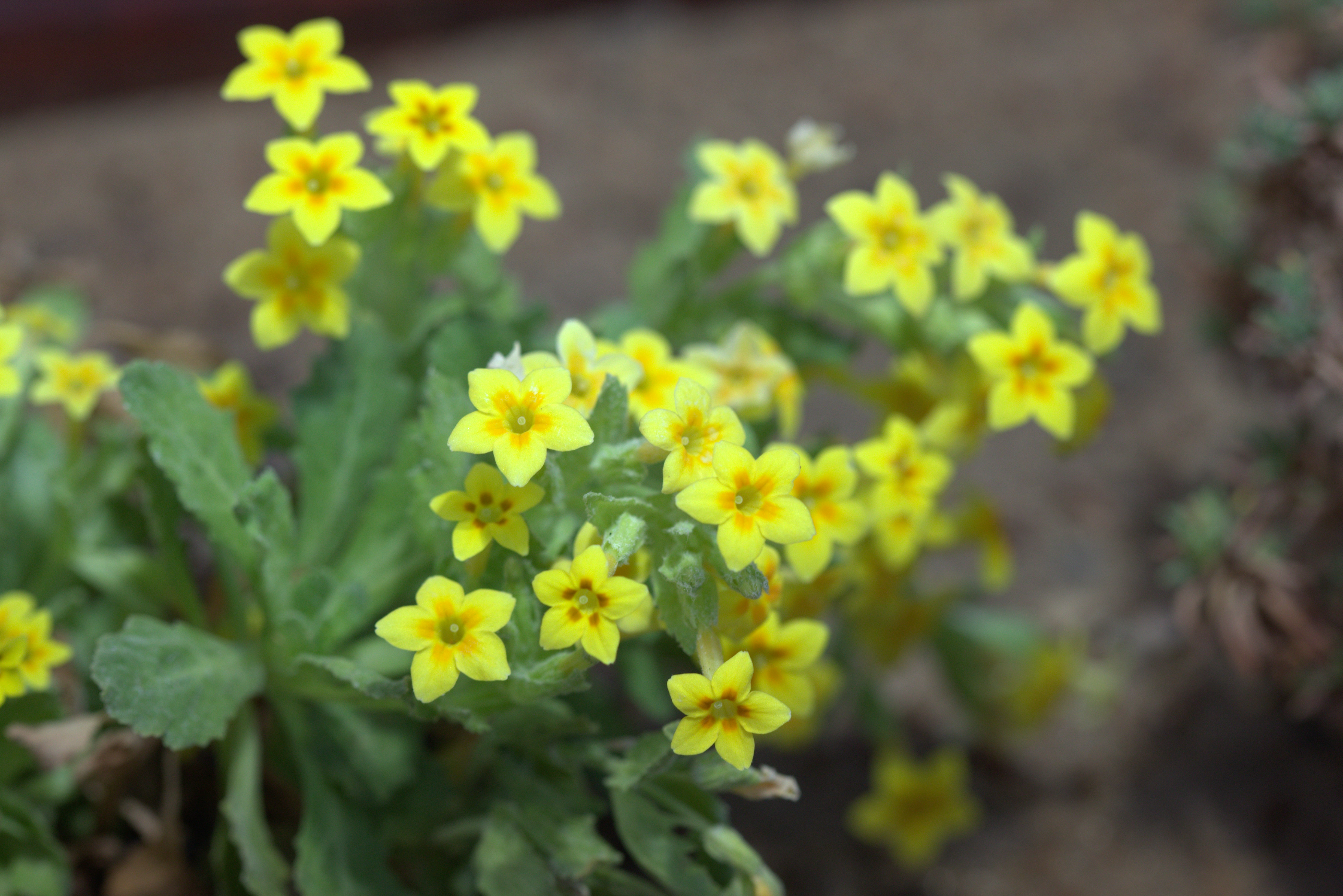 Dionysia paradoxa at Gothenburg Botanical Garden in 2015. Plant id: 1969-3890; PW 744